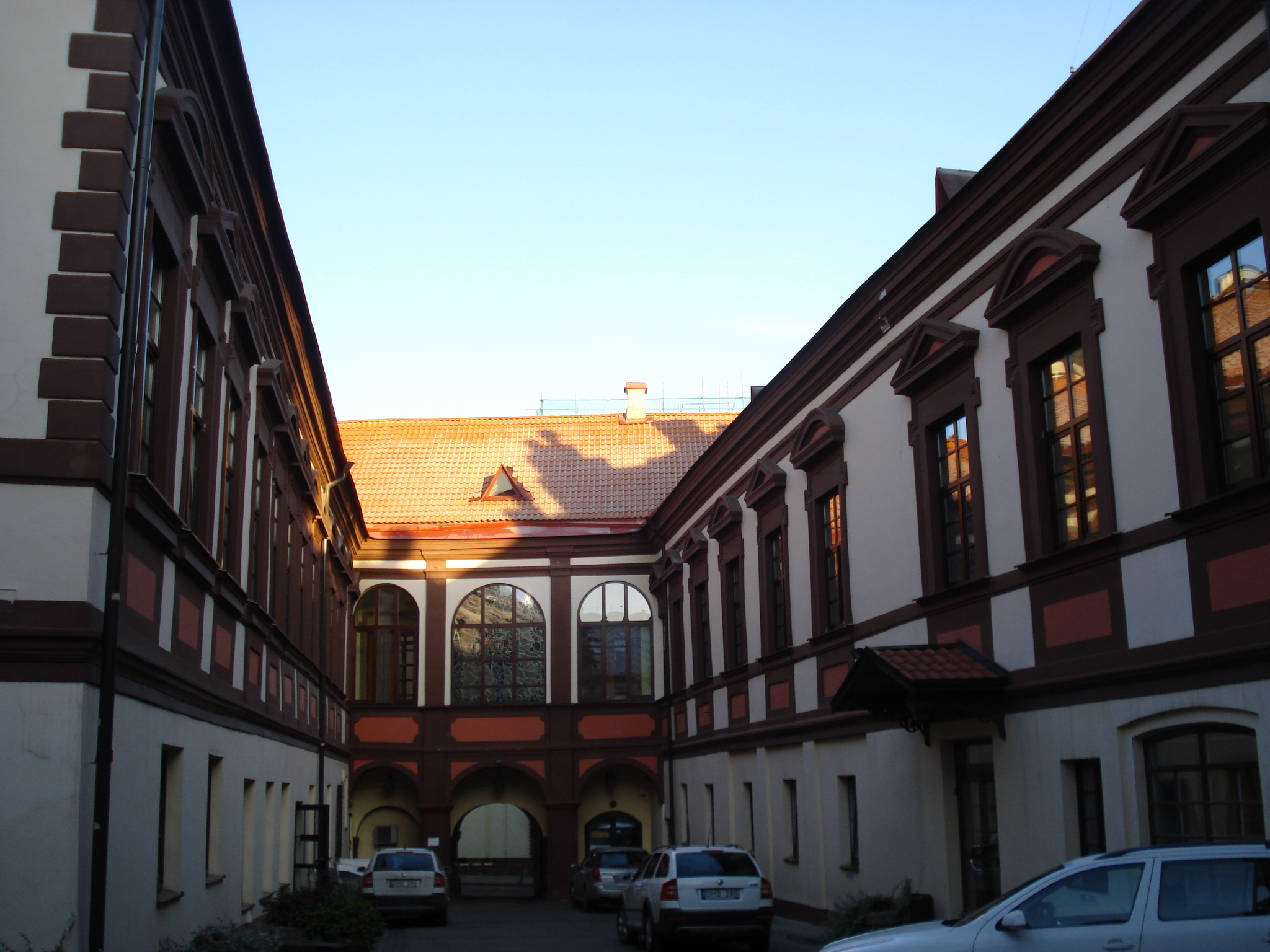 Cortyard of the Pociej palace. Dominikonų g. 11